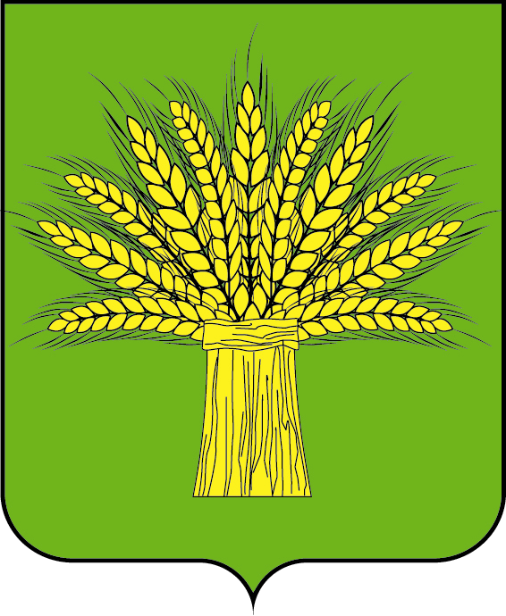 Coat of Arms of Turkmensky rayon, Stavropol Territory, Russia “В зелёном щите — золотой сноп пшеницы о одиннадцати колосьях”